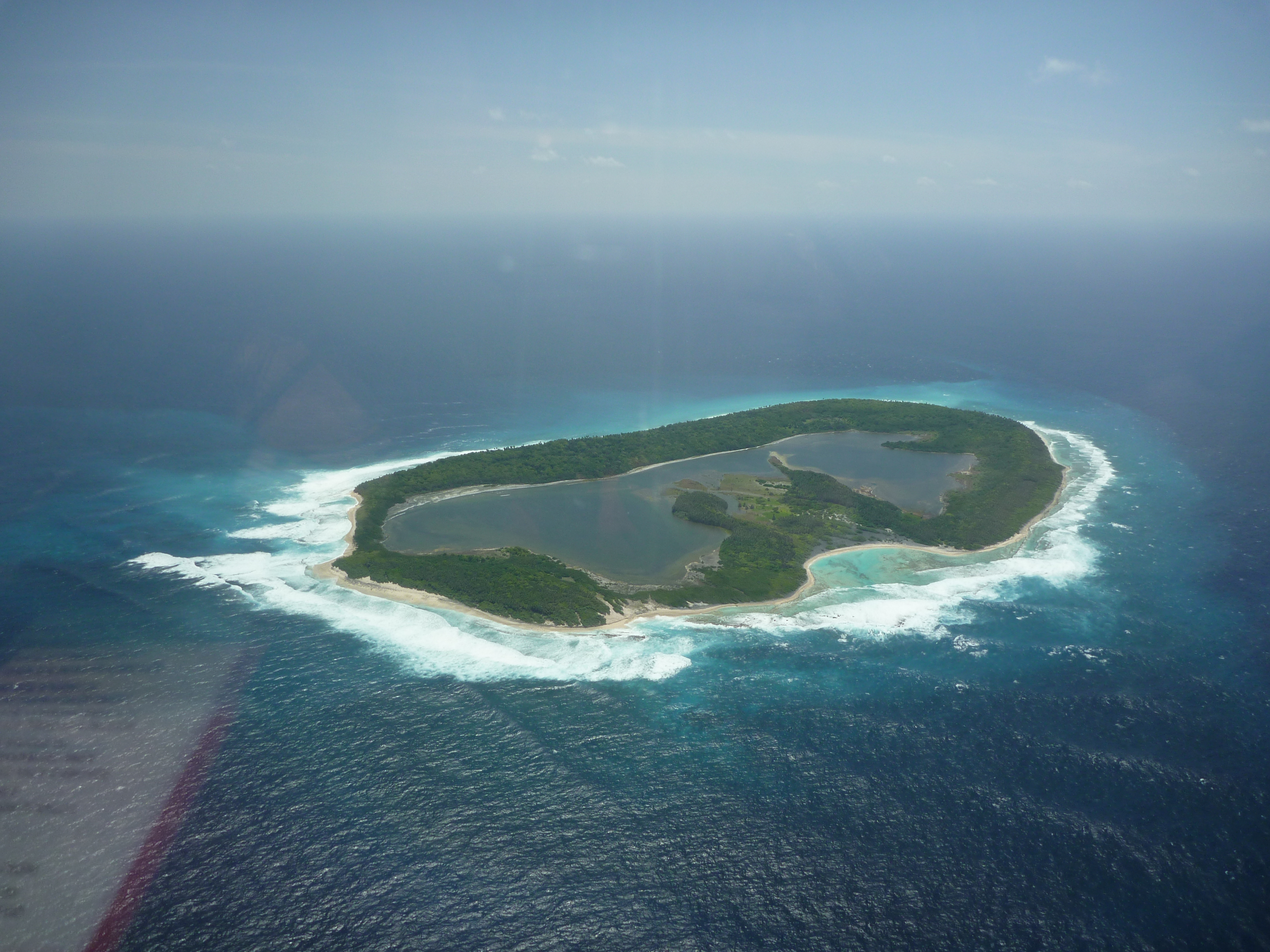 North Keeling Island in the Indian Ocean - part of the Cocos (Keeling) Islands group